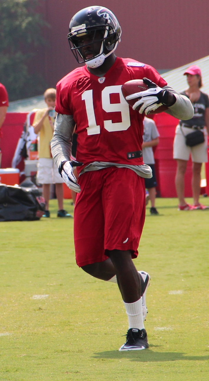 Drew Davis at Falcons training camp, 2013